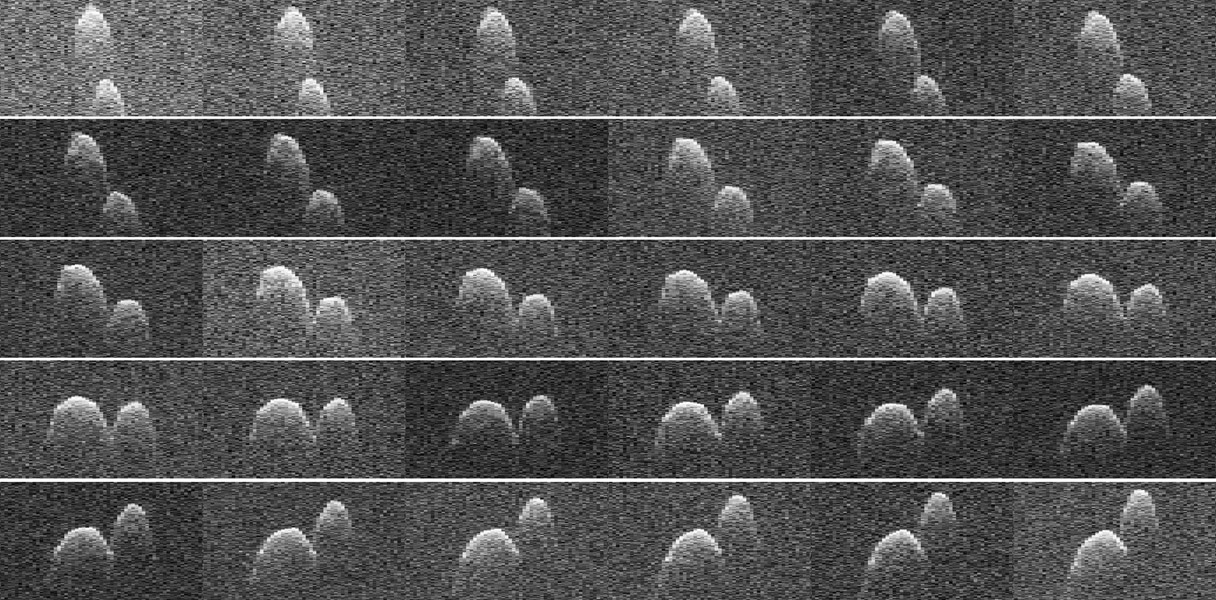 Radar images of asteroid 1999 JD6 were obtained on July 25, 2015. The asteroid is between 660 - 980 feet (200 - 300 meters) in diameter.